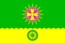 Flag of Novovelichkovskoe, Krasnodar Territory, Russia